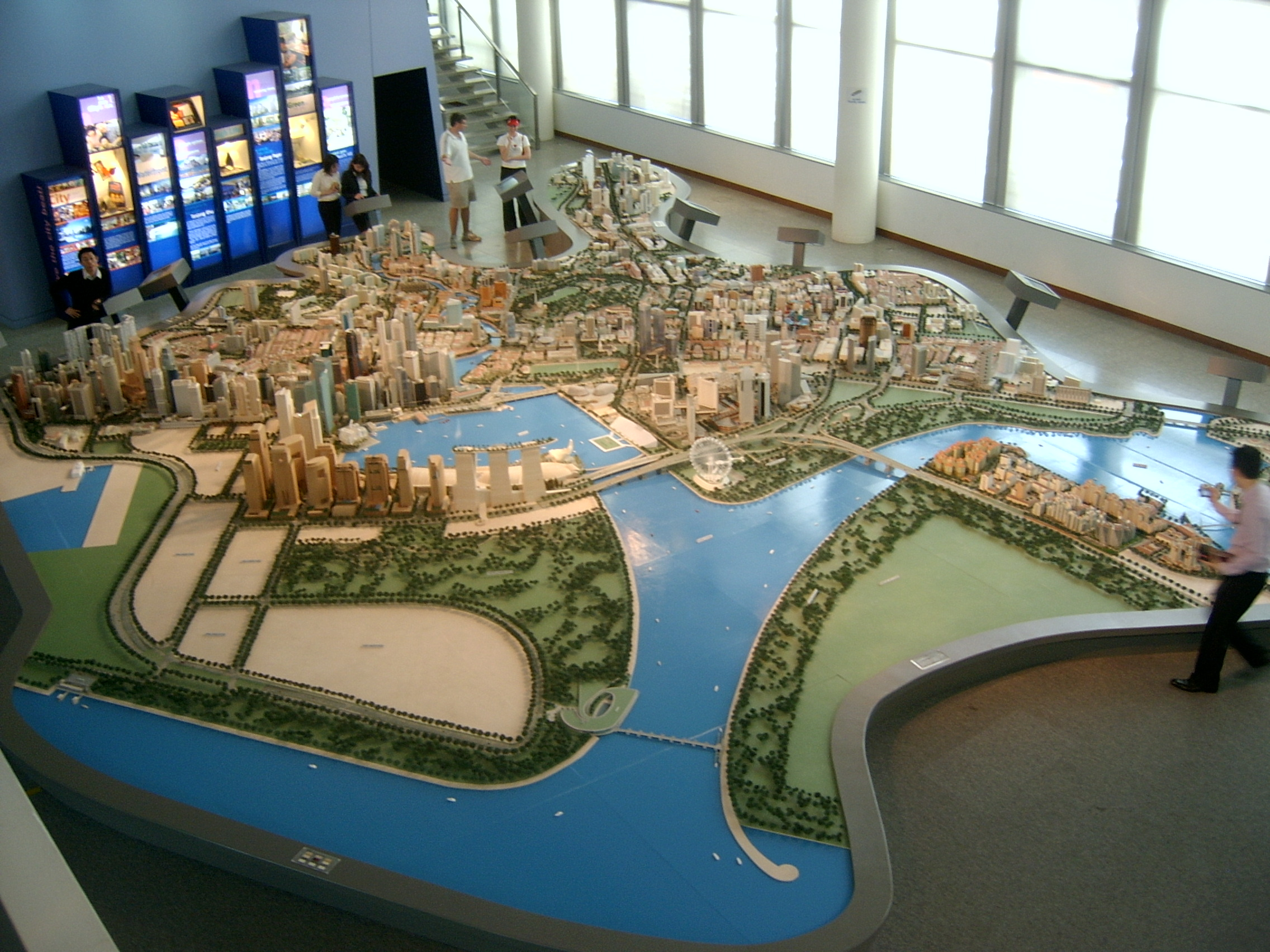 this is a picture I too from the third floor of the second floor of the URA in Singapore. Very nice gallery.